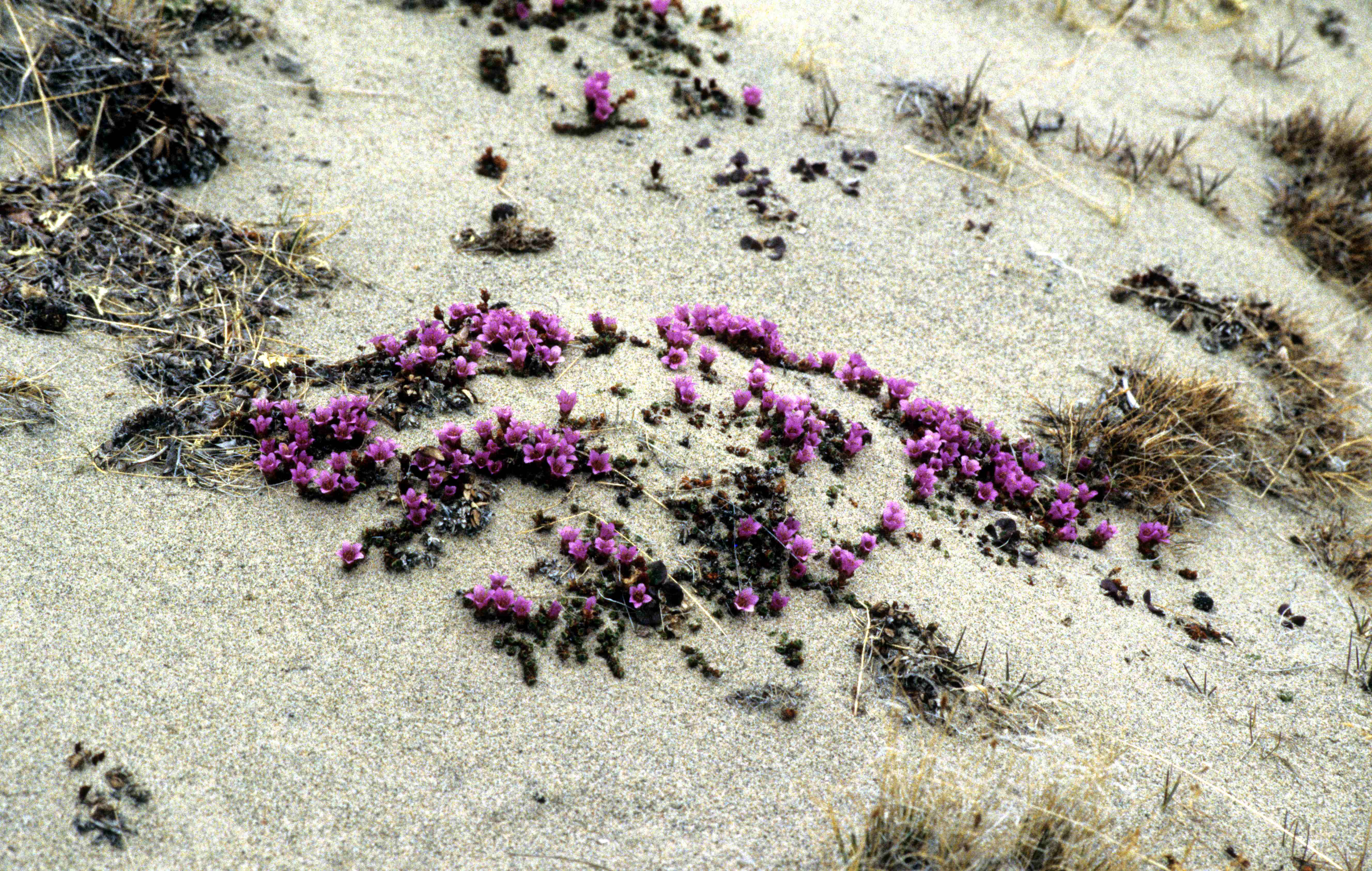 Purple saxifrage on Bylot Island (Sirmilik National Park, Canada)